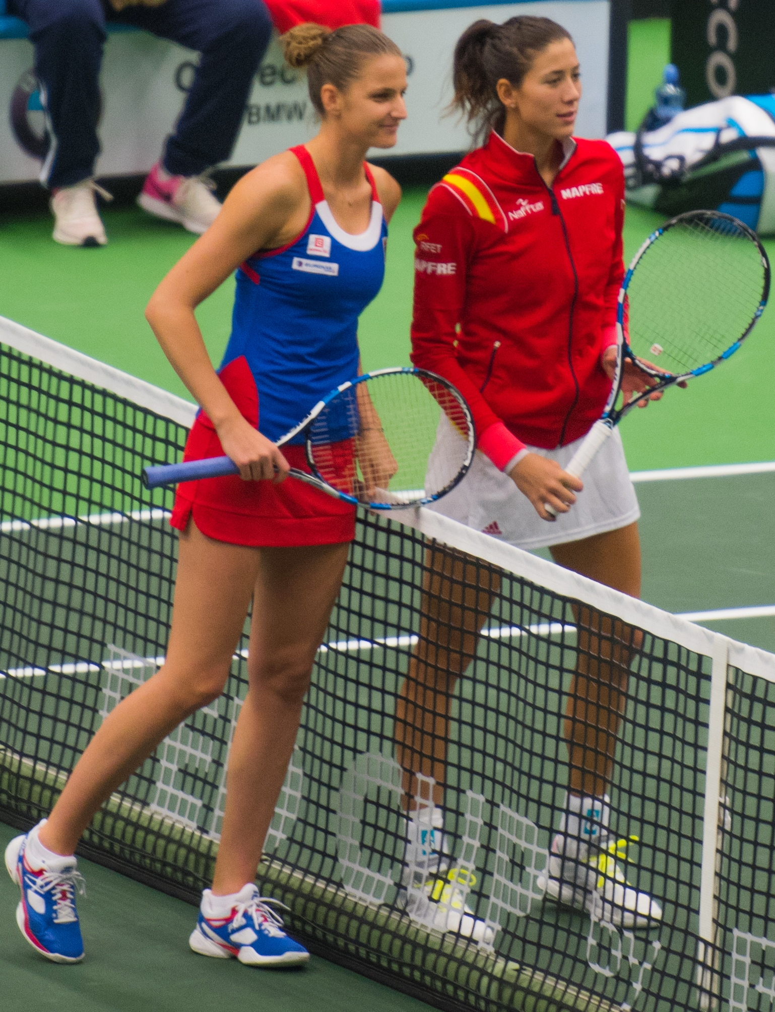 Karolína_Plíšková_and_Garbiñe_Muguruza_at the Quaterfinal Fed_Cup_2017 World Group in Ostrava